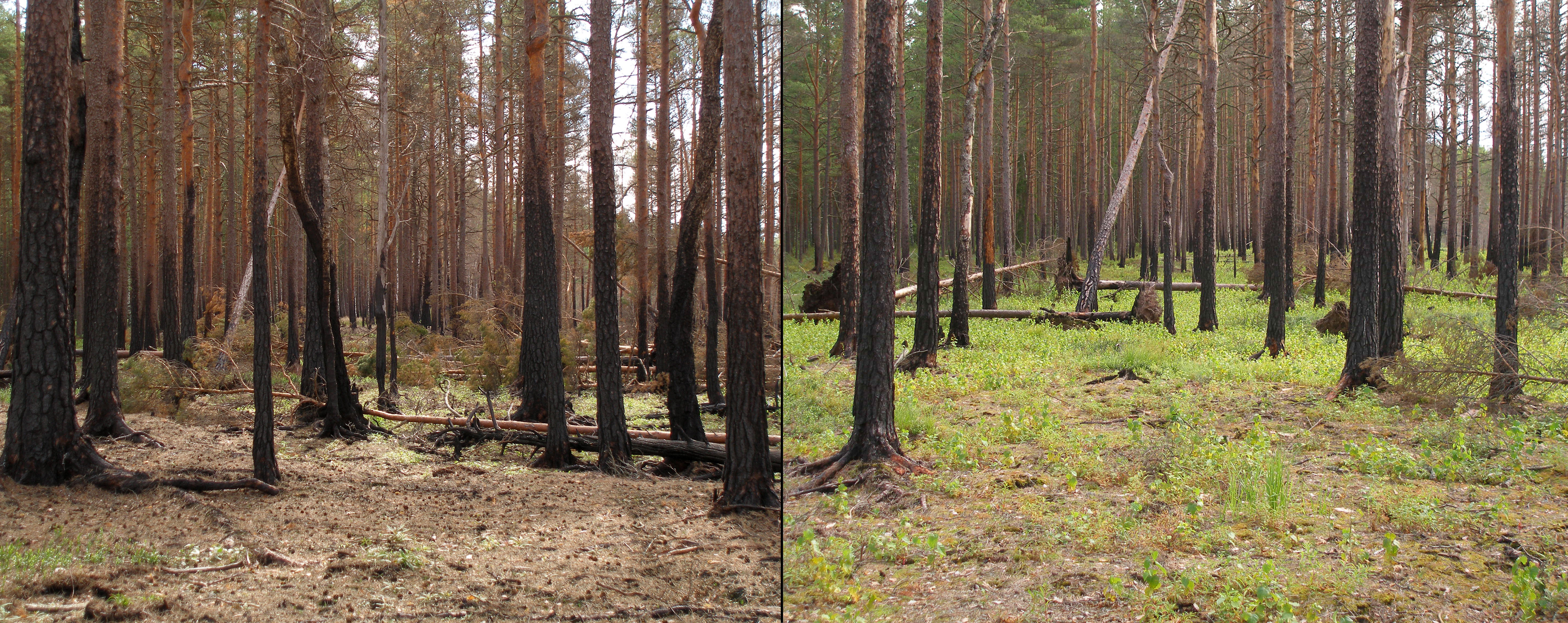 Ecological succession after wildfire in boreal pine forest (next to Hara Bog, Lahemaa National Park, Estonia): two photos of the same place, picture on the left taken one year and picture on the right two years after the fire.The fire occurred around 20-22 August 2006 [1].